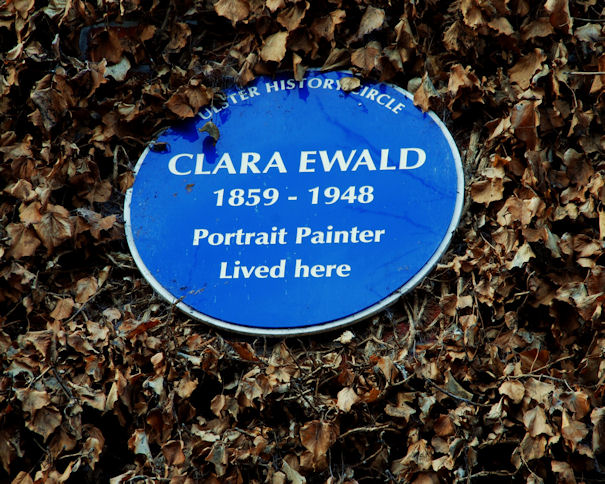 Clara Ewald plaque, Belfast A plaque, on a house in Rugby Road, commemorating the painter Clara Ewald